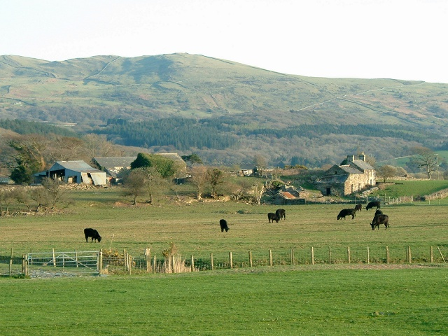 Draenogan Farm Welsh Black cattle grazing